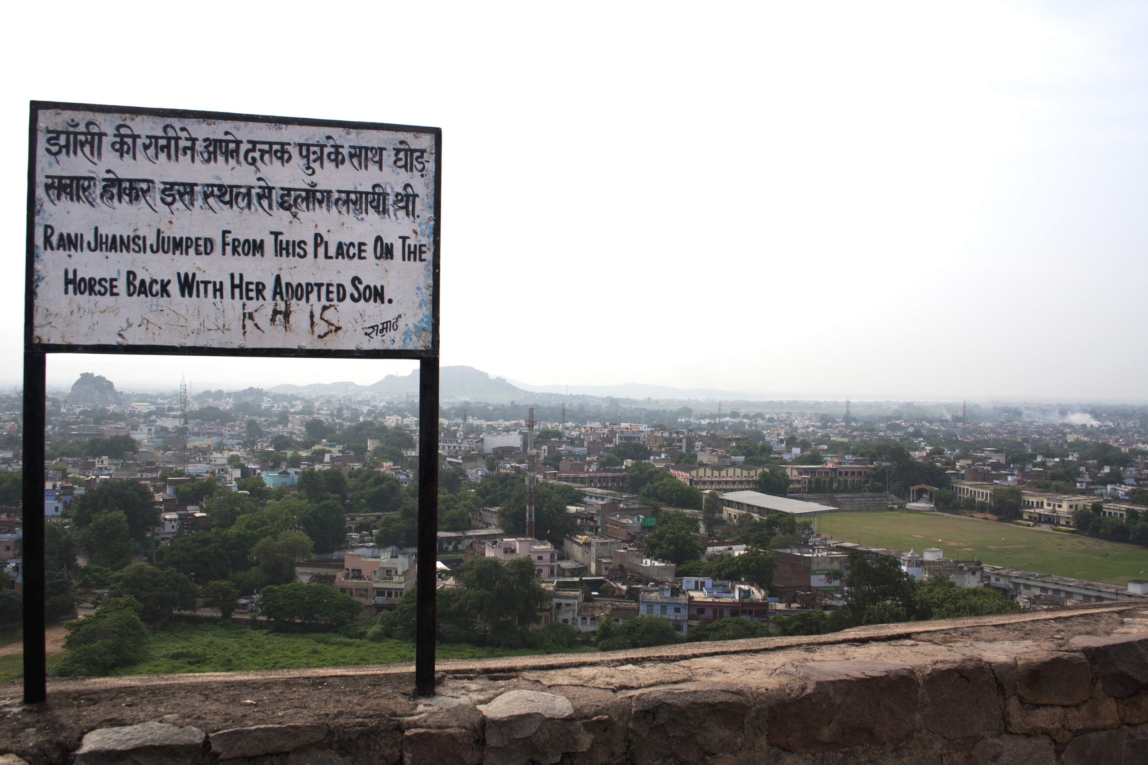 The board at the Jumping point in the Jhansi Fort.